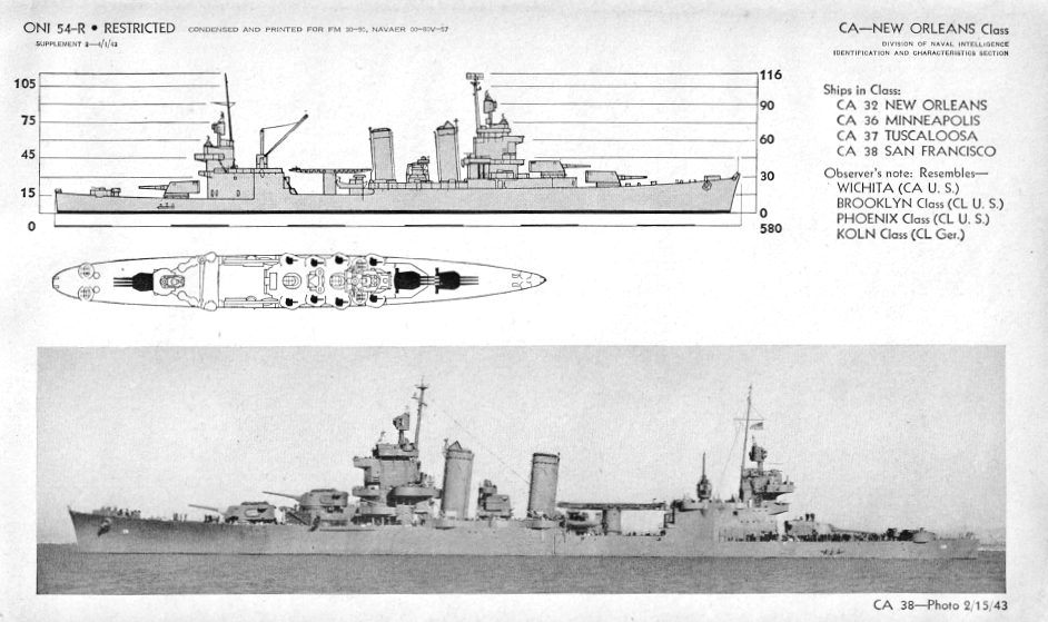 Identification sheet for the U.S. Navy New Orleans-class heavy cruisers from the U.S. Office of Naval Intelligence.